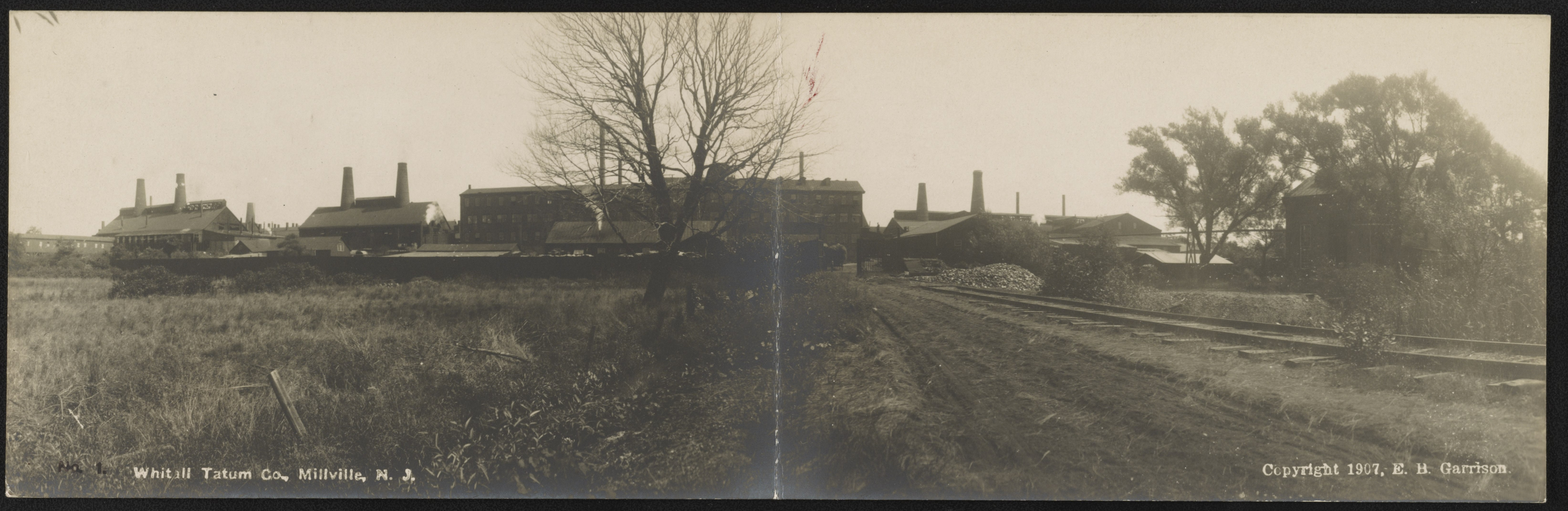 Title: Whitall Tatum Co., Millville, N. J. Abstract/medium: 1 photographic print (postcard)